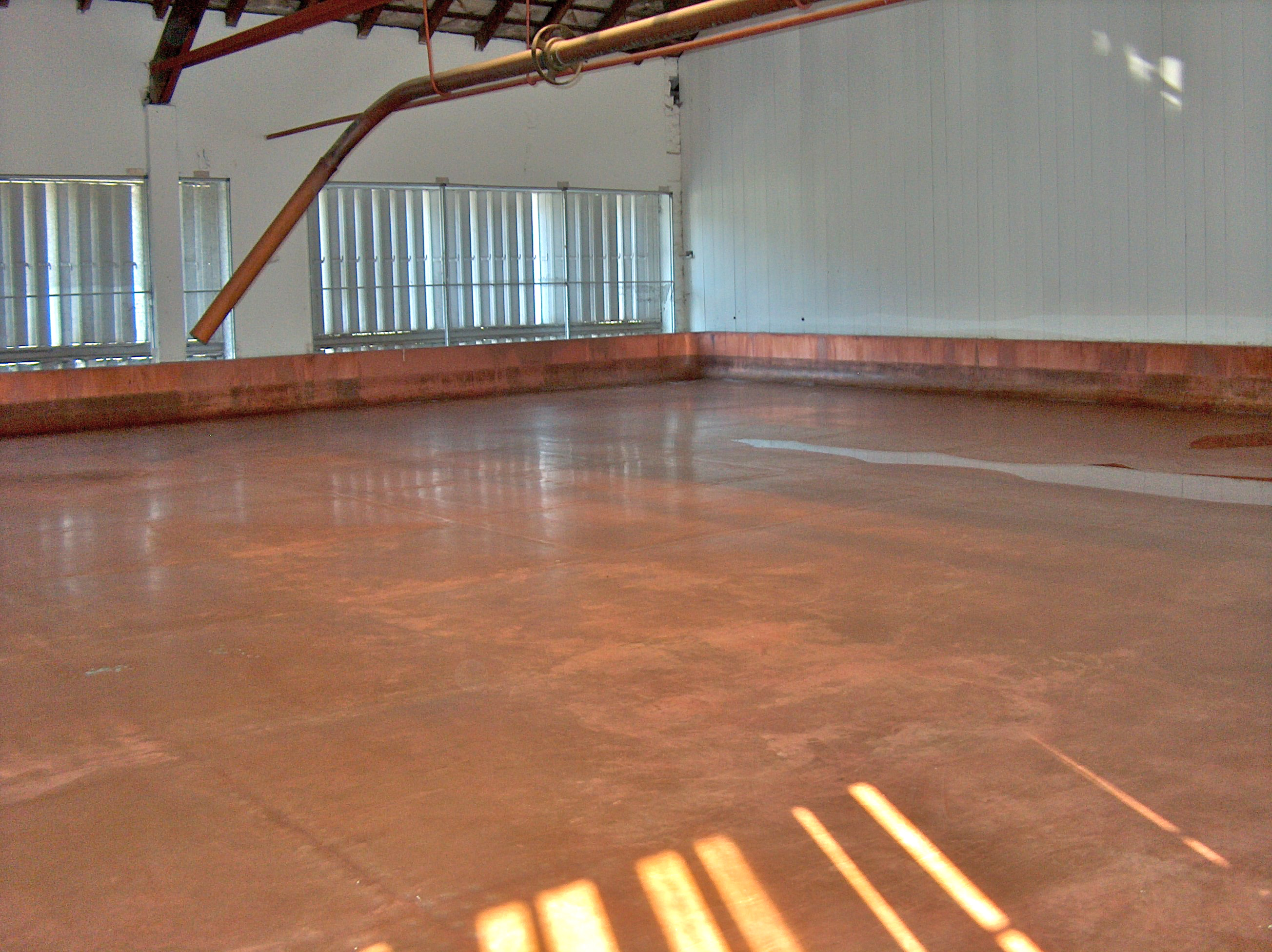 Copper-clad 'koelschip' where the wort cools down and gets infected by wild yeasts